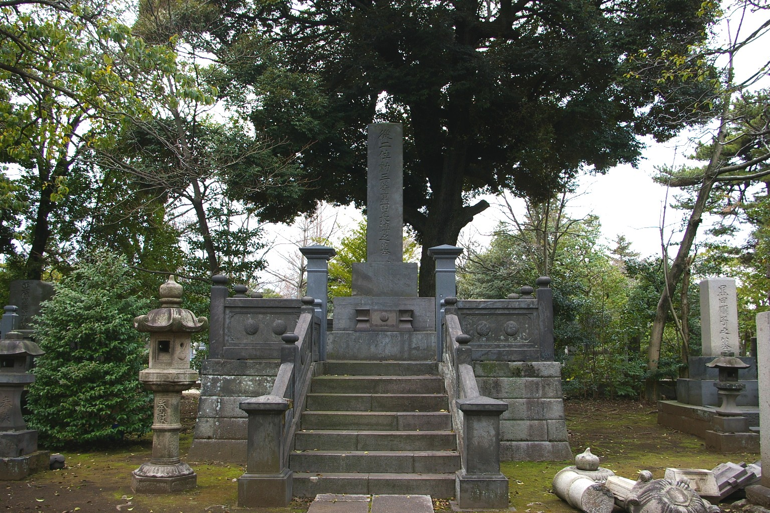 taken by me.